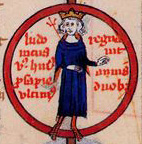 Louis V of France